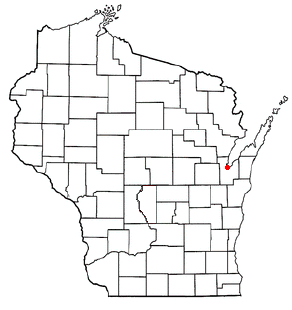 Green Bay, Wisconsin.